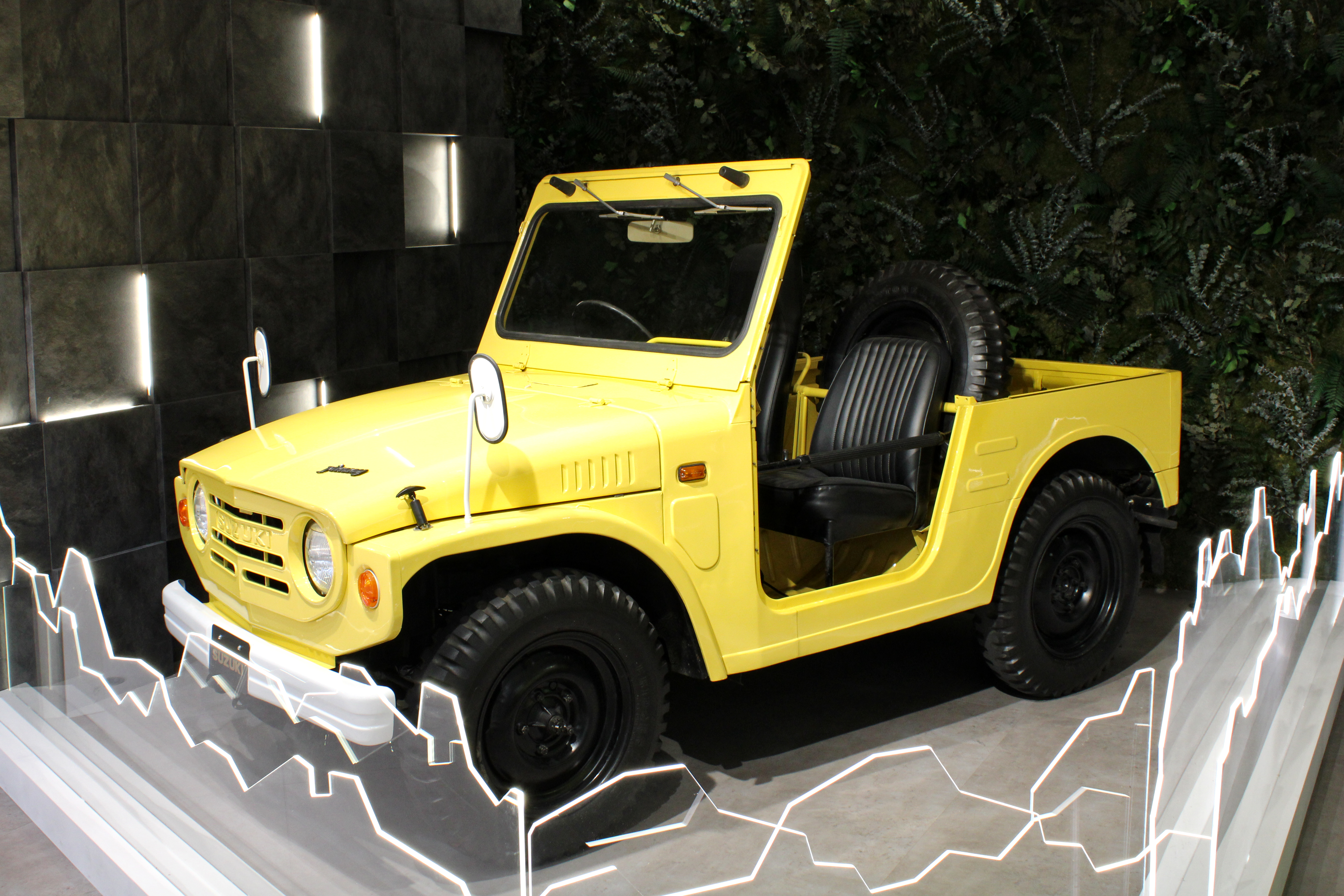 Suzuki Jimny (1st generation) at Paris Motor Show 2018